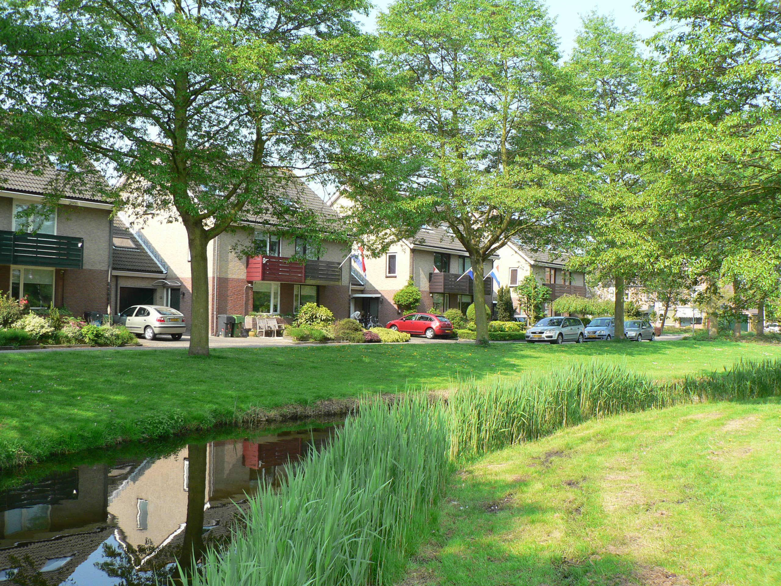 Buizerderf Voorschoten NL